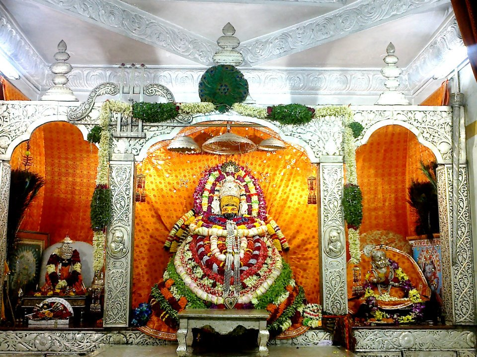 Image of Lord Shyam.